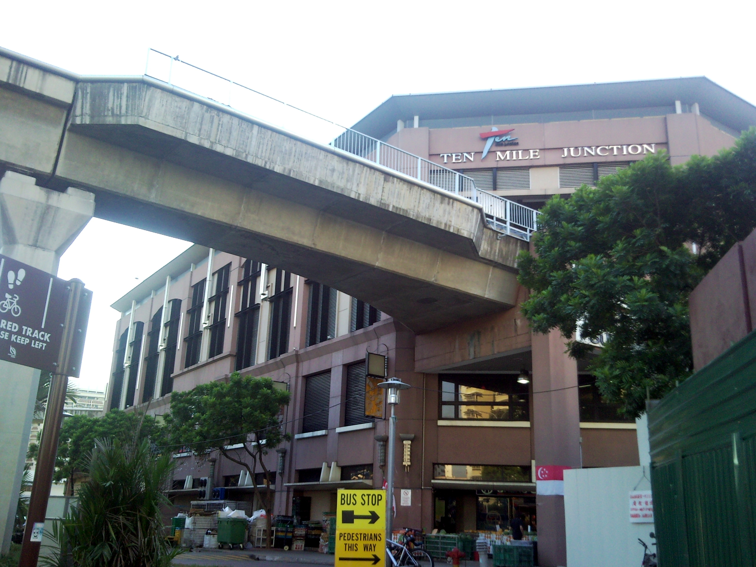 Ten Mile Junction